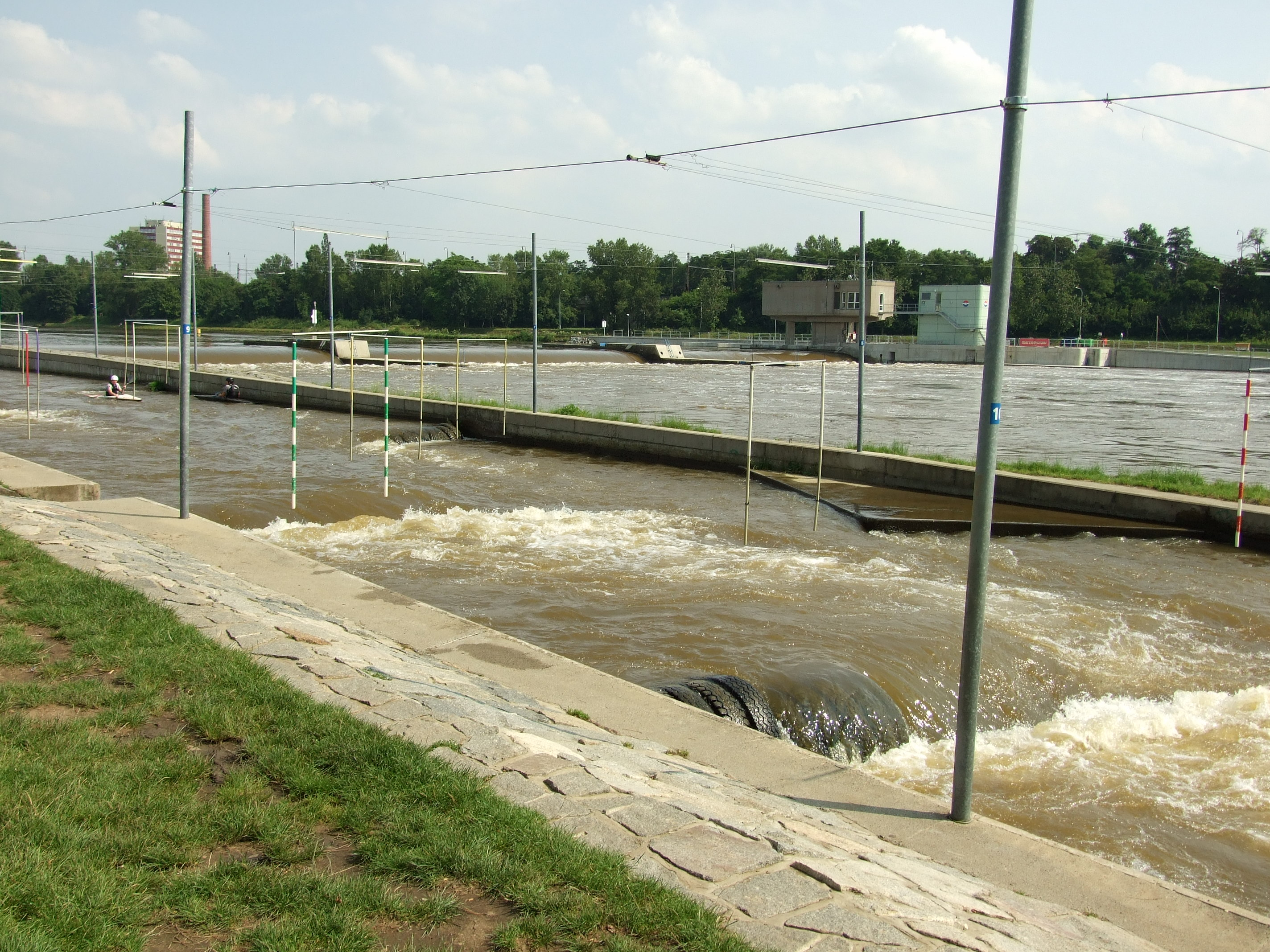 Vltava river in Troja, Prague, CZ. The track was dismantled in 2006. (?)